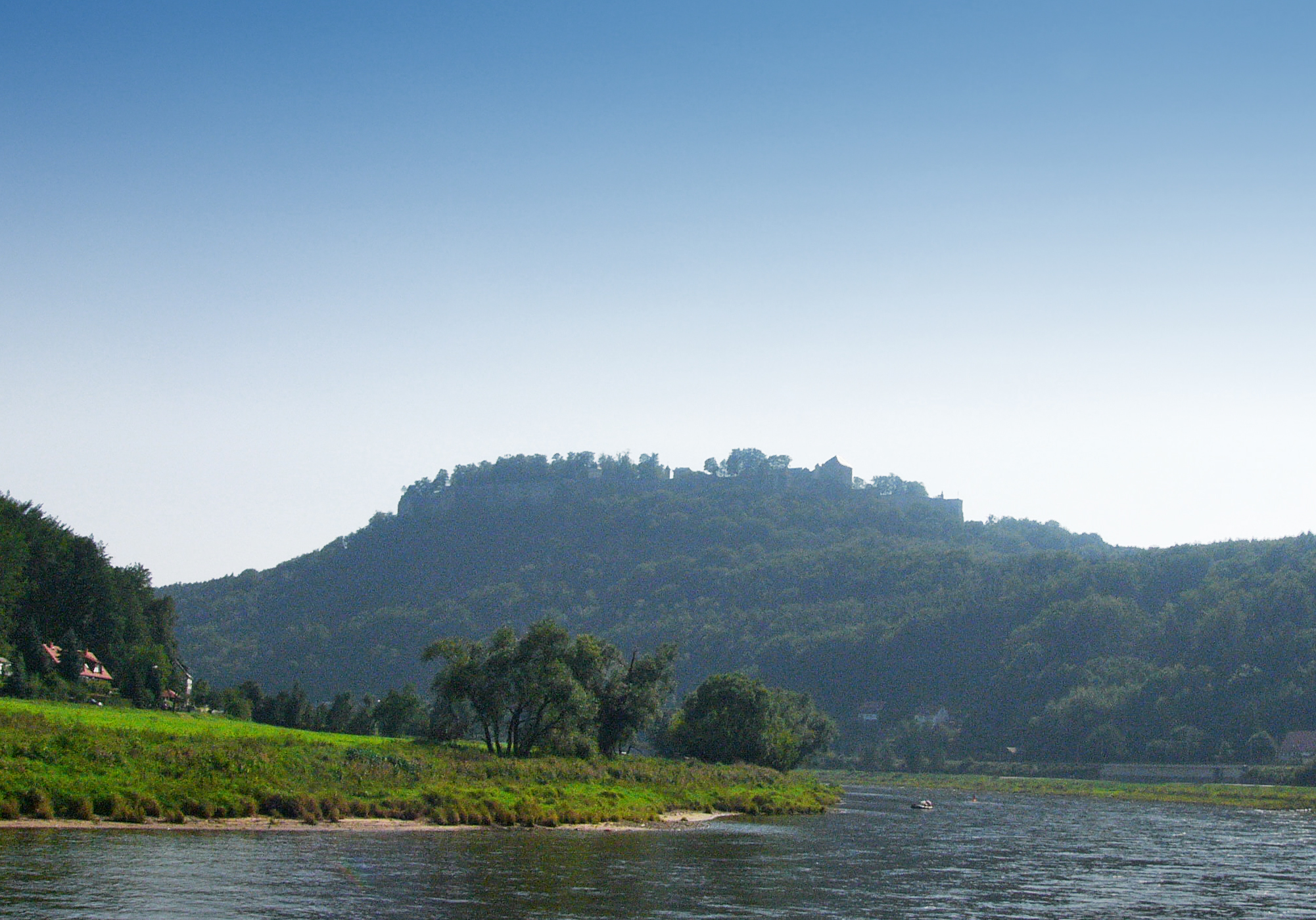 View from Elbe River to the Königstein Fortress in Saxon Switzerland, Saxony, Germany.